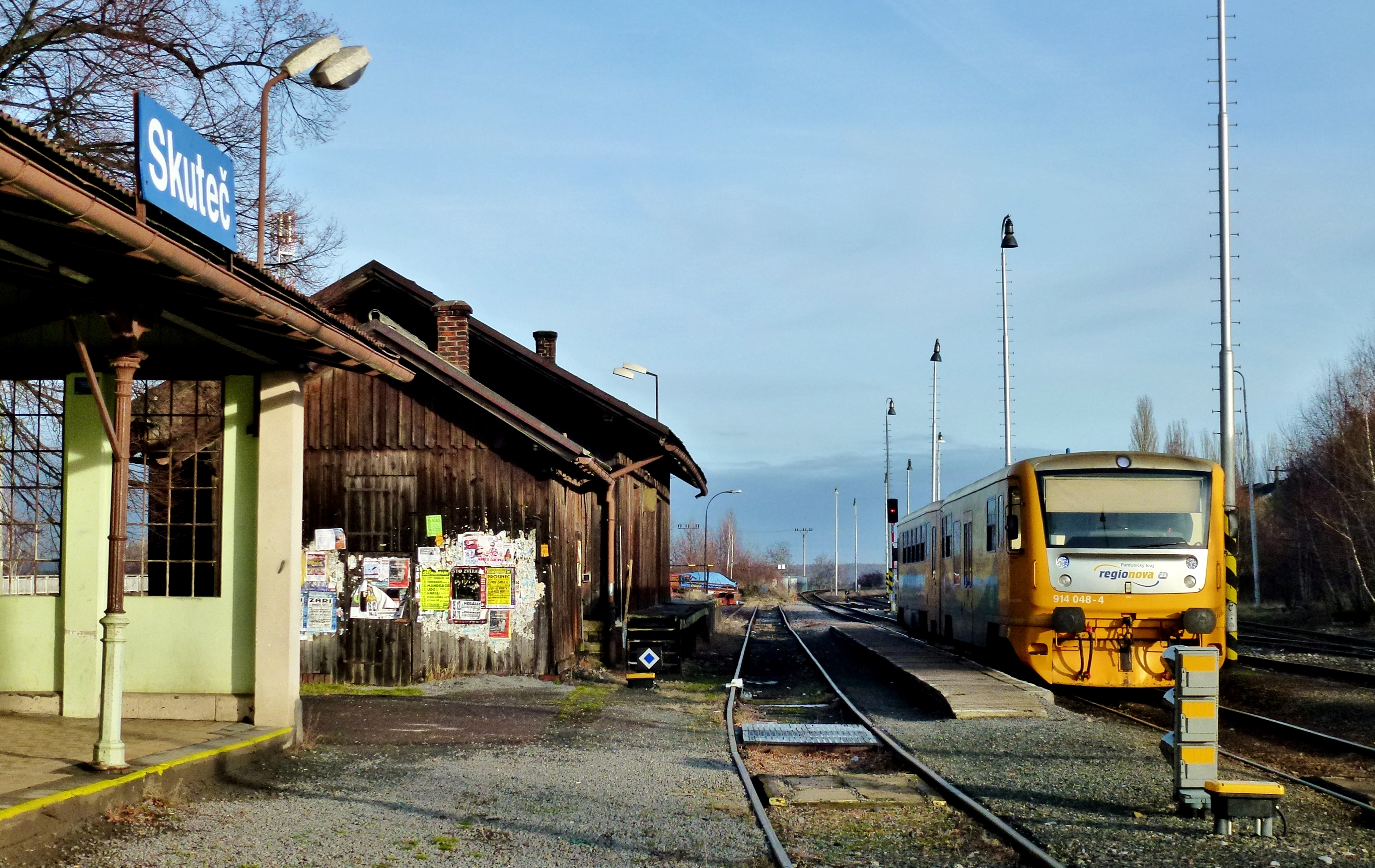 Skuteč railway station, located on the regional railway line number 261 (Svitavy – Polička – Žďárec u Skutče). Passenger train at the railway station on 24 December 2012 (motor unit Regionova, 814 series, operator with named Czech Railways). Photo-location: town Skuteč, Pardubice Region, Czechia.